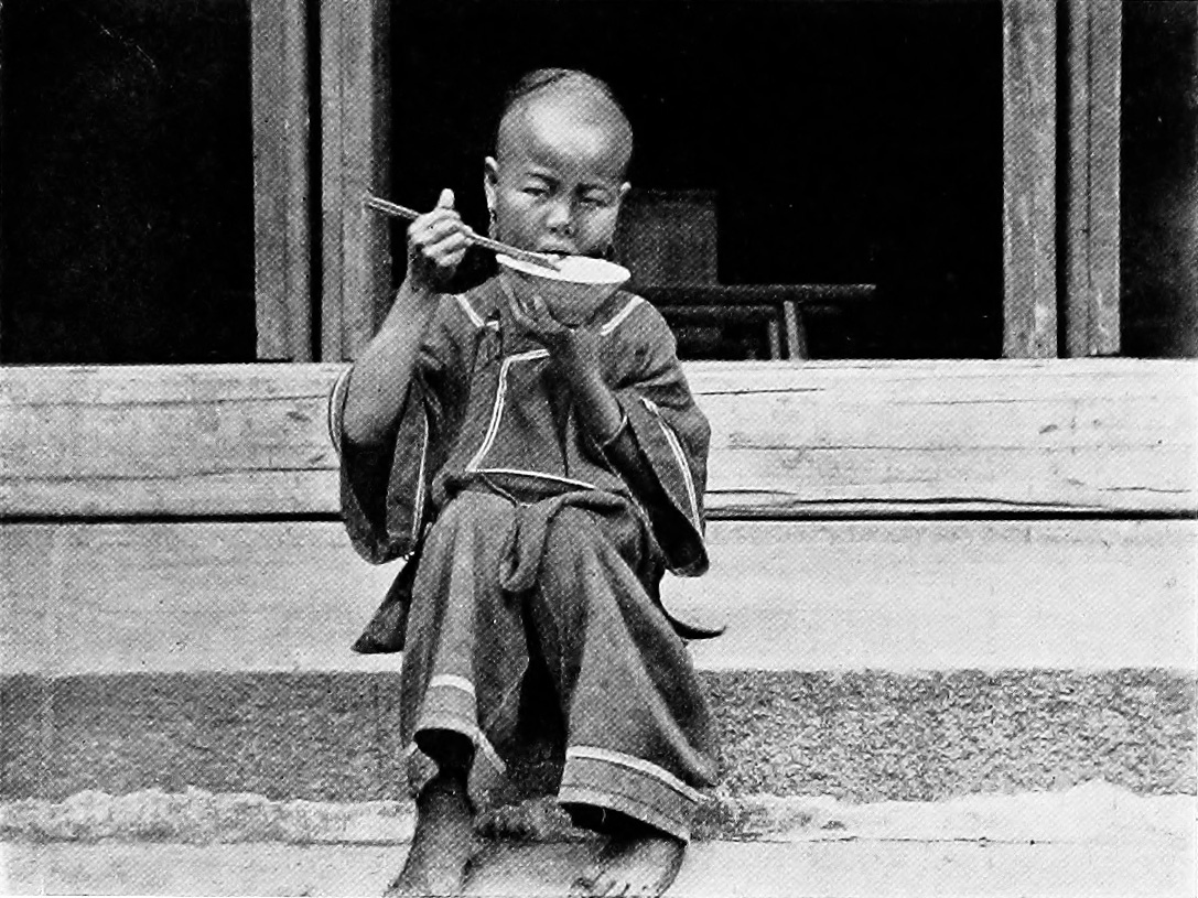 See Wikisource link below.